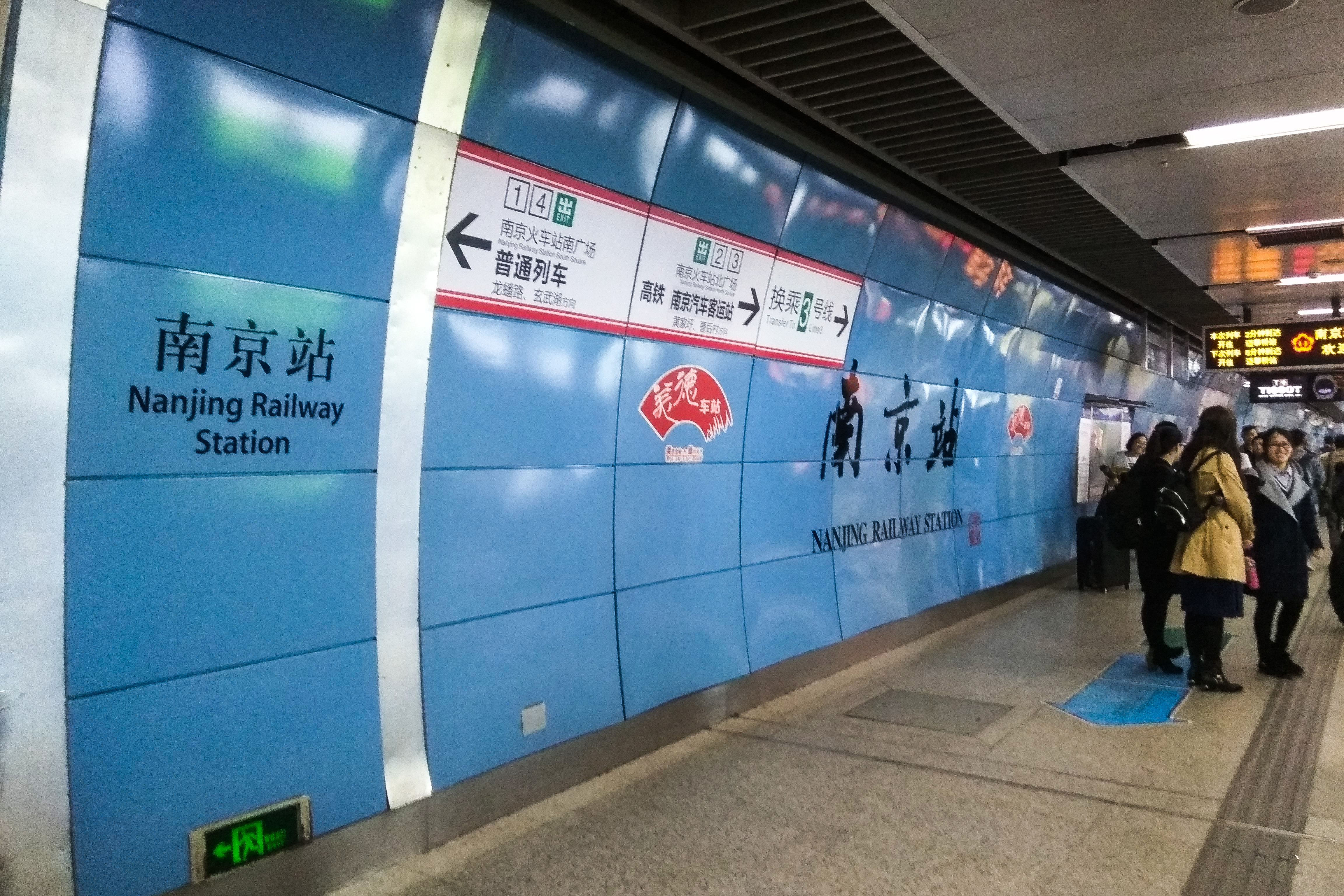 201704 Metro Nanjing Railway Station. Is MTR Kennedy Town Station a replication of it?